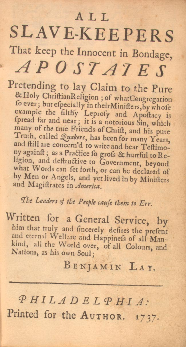 Book of Benjamin Lay